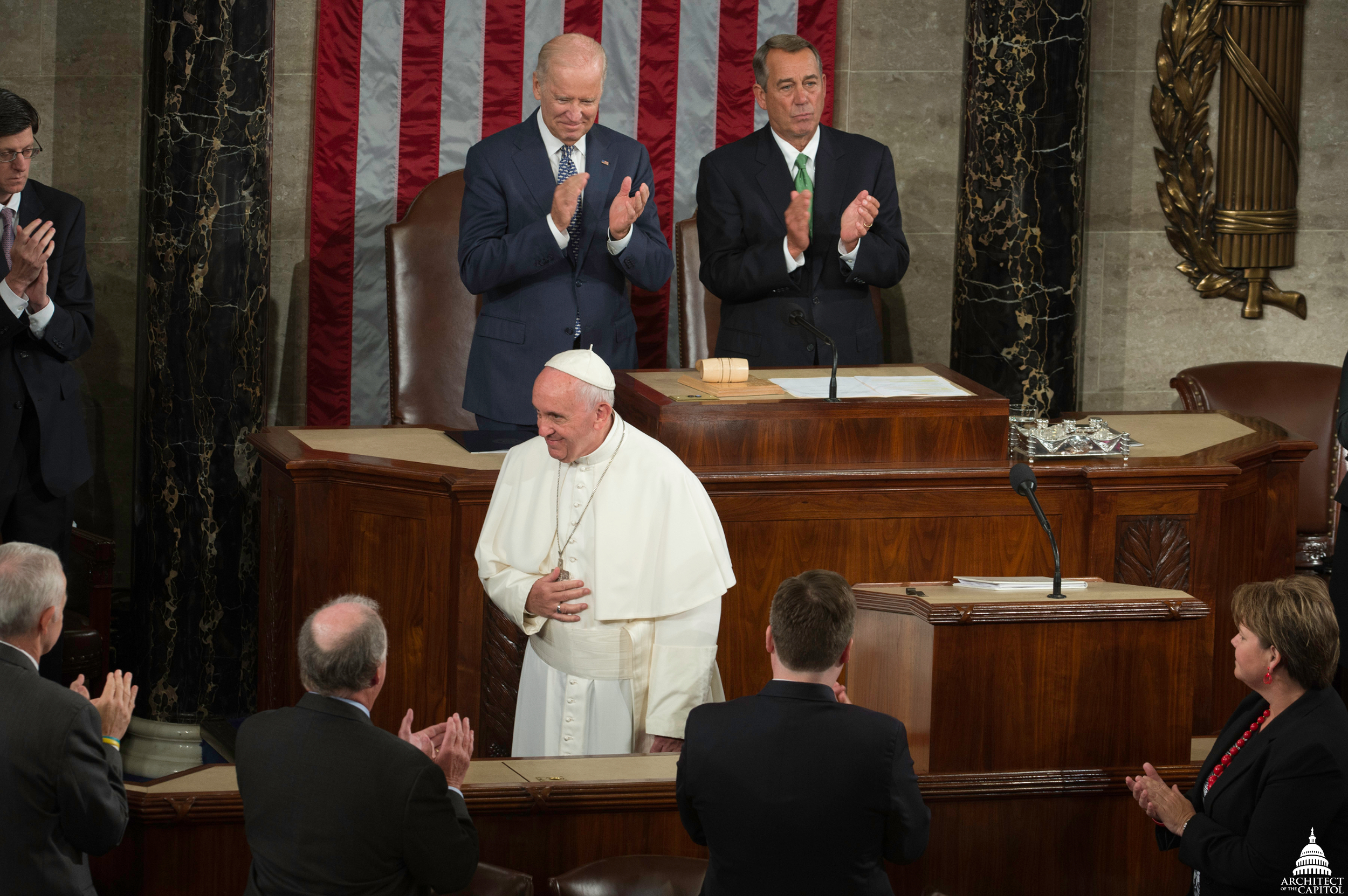 His Holiness Pope Francis visited the U.S. Capitol on September 24, 2015, and became the first Pope to address a joint meeting of United States Congress. The Pontiff then addressed the crowds assembled along the West Front. Multiple jurisdictions within the Architect of the Capitol (AOC) worked together to prepare for His Holiness' historic arrival at the Capitol, treating it much like a rehearsal for the next inauguration. The AOC teams built a platform for the Pontiff to stand on so the crowds below could see him and also constructed a safety bannister that seamlessly matched the ornate railing of the Speaker's balcony.